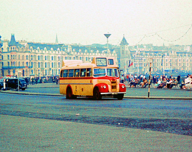 Douglas Corporation bus 11 (reg. WMN 487), a 1957 Guy Otter truck derived bus, with Mulliner 26 seat bodywork. pictured on the Promenade in Douglas, Isle of Man, operating on route 1 to Port Soderick route. These small vehicles were characterised by their enormous destination indicators, back and front. On withdrawal in 1970 it was purchased for preservation, being re-registered UTU 597J. Having passed to the Manx Transport Trust in September 2010, it regained its original registration.